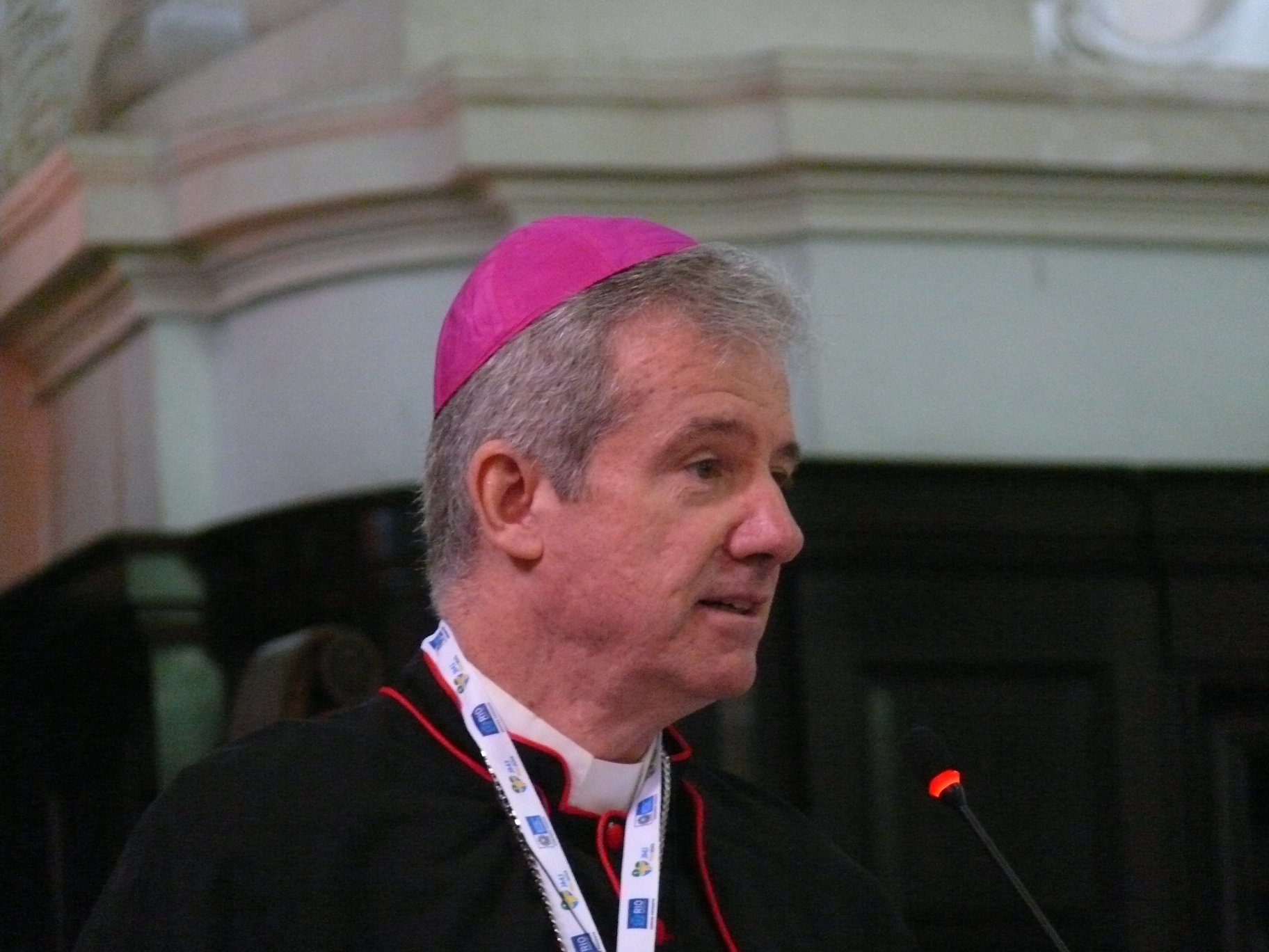 Archbishop Christian Lépine of Montréal (Canada) during World Youth Day 2013 in Rio de Janeiro (Brazil).